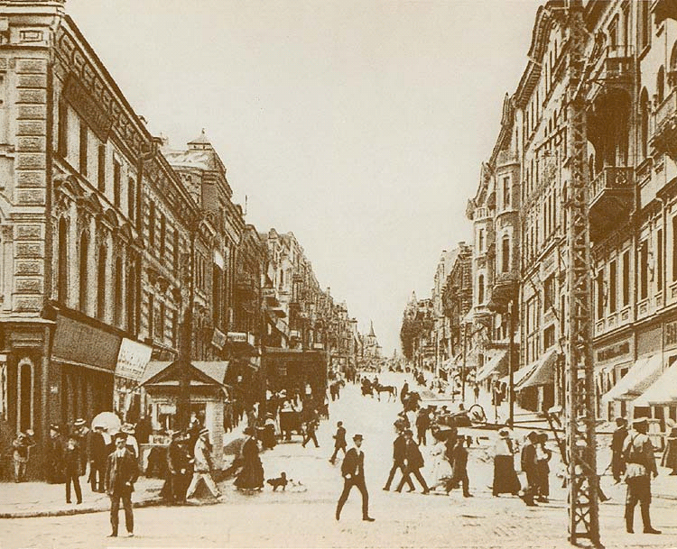 Kiev, view of Proreznaya street.